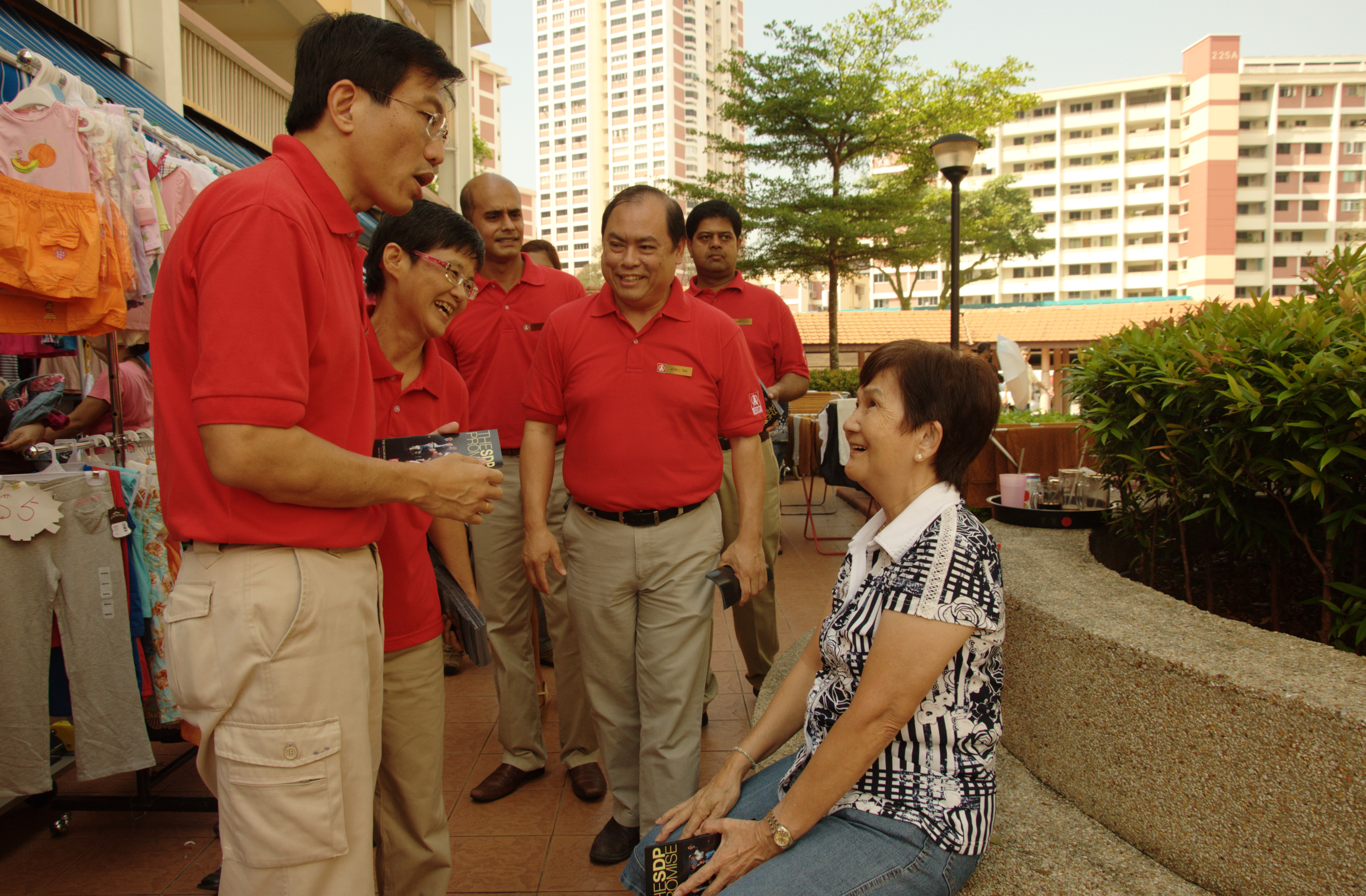 Singapore Democratic Party leader Dr. Chee Soon Juan campaigning together with Ms. Teo Soh Lung in Yuhua Single Member Constituency prior to Nomination Day of the Singaporean general election, 2011.